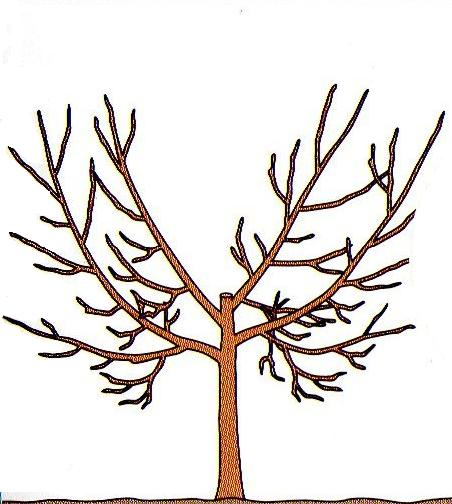 Please somebody write the name in english!